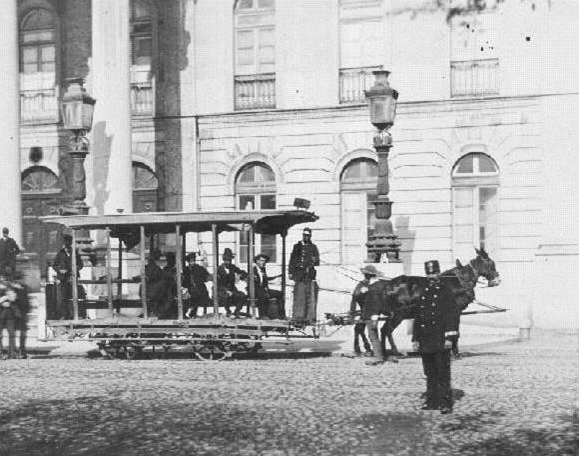 Horse tram in Lisbon, Teatro D. Maria, Rossio, 1873